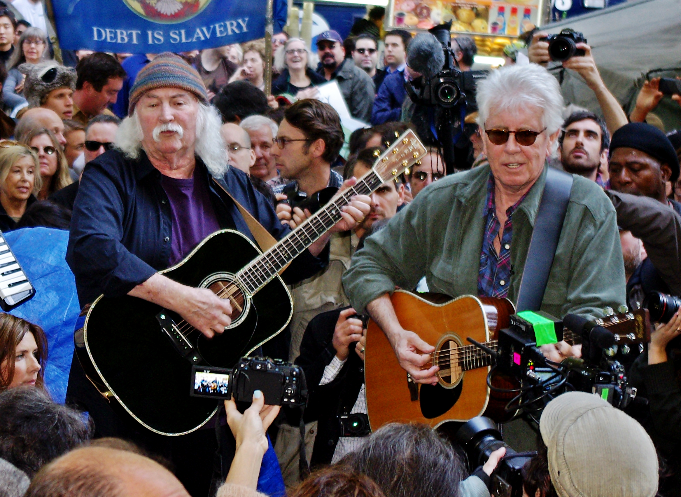 David Crosby and Graham Nash play Occupy Wall Street on Tuesday, November 8.